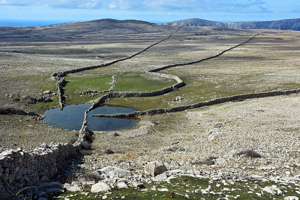 On the high plateau of Diviška streak, there's almost no water, so ponds like this one are precious. Dry stone walls are regulating the access of sheep of different owners.